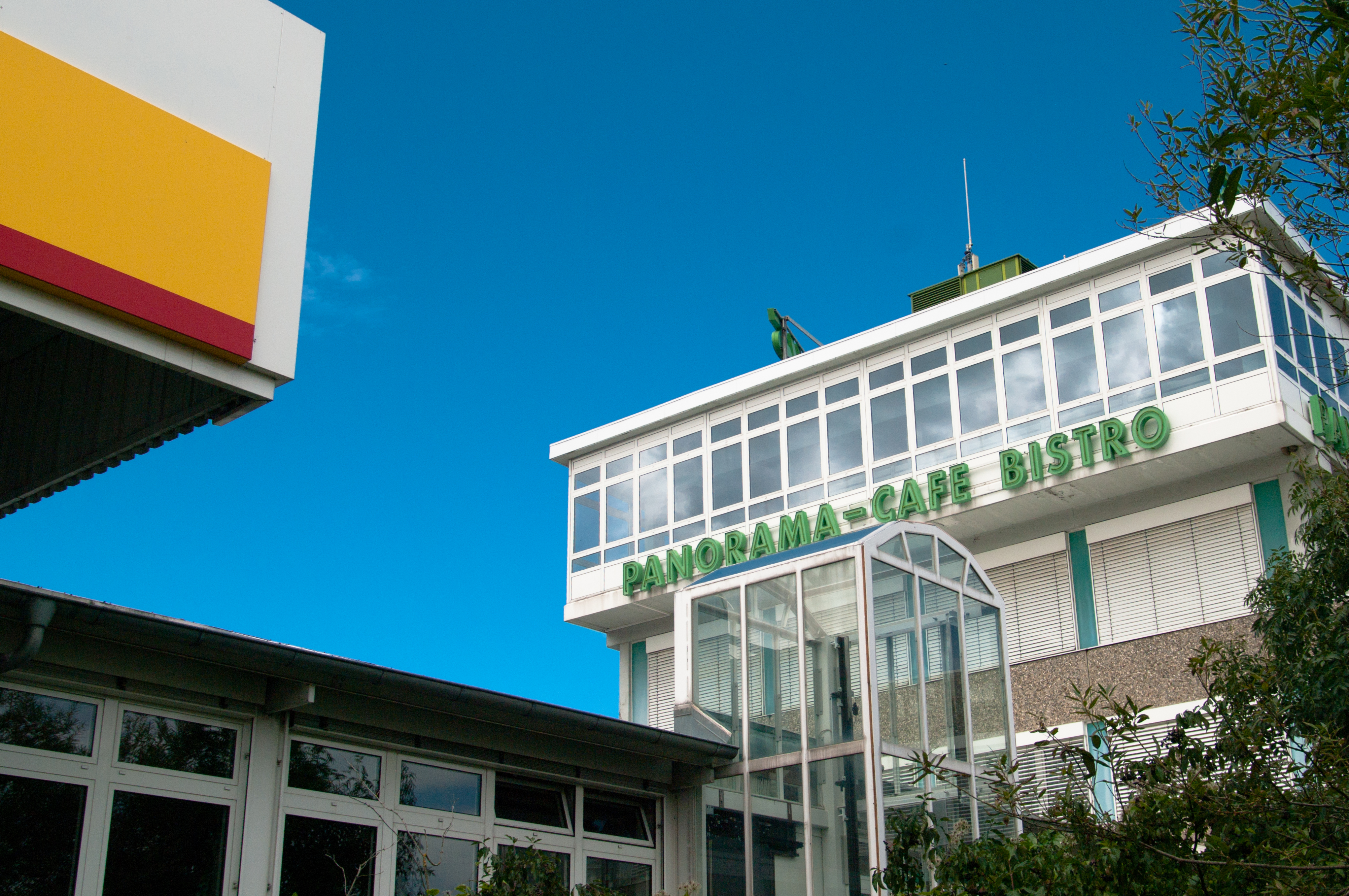 Autobahn rest area on the former inner German border at Autobahn A4.